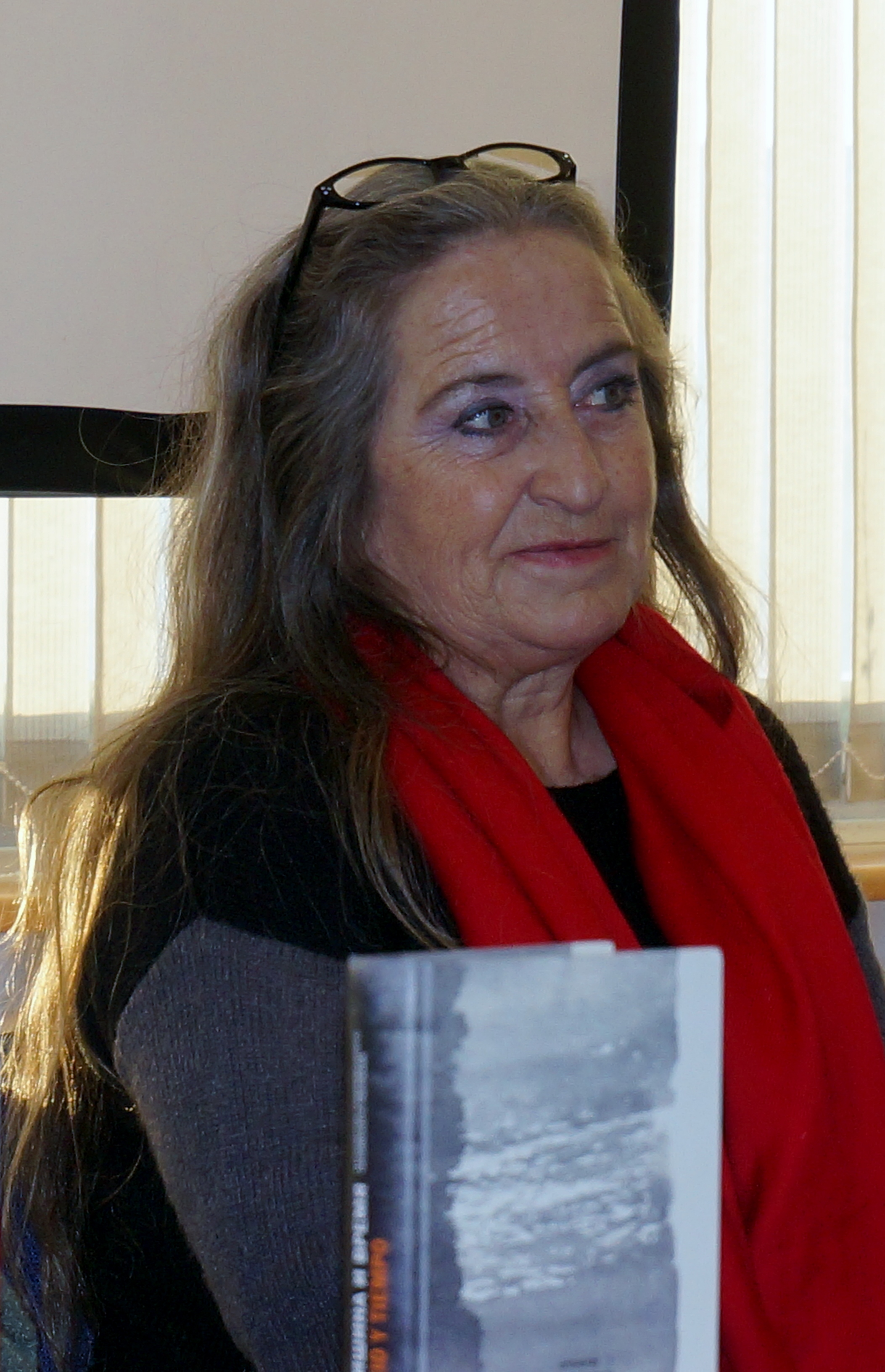 Chilean writer Pía Barros at the 17 Moscow International Fair of Intelectual Books, Non-Fiction 2015